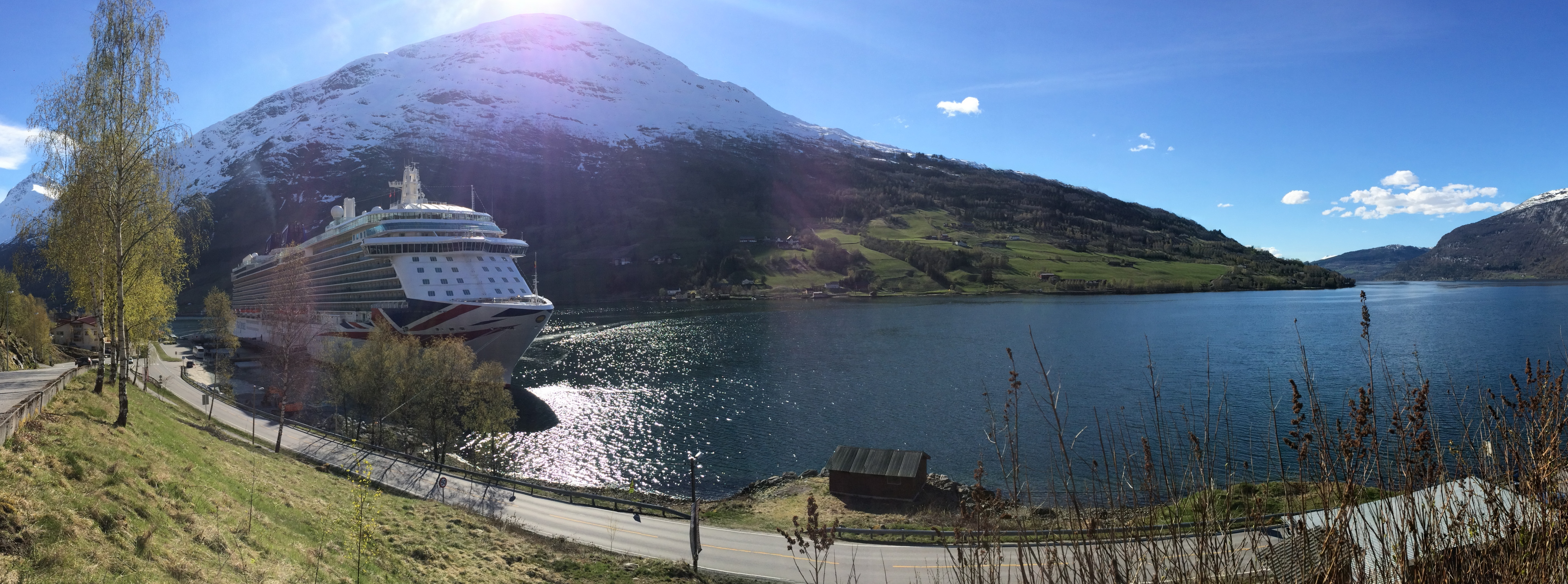 Fold-out-panorama of Oldenbukta and Olden in Stryn Municipality, Sogn og Fjordane, Norway, 28th April 2015. Cruiseship MV Britannia from P & O Cruises. (iPhone panoramic photo, distortion may occur in details and continuity.)